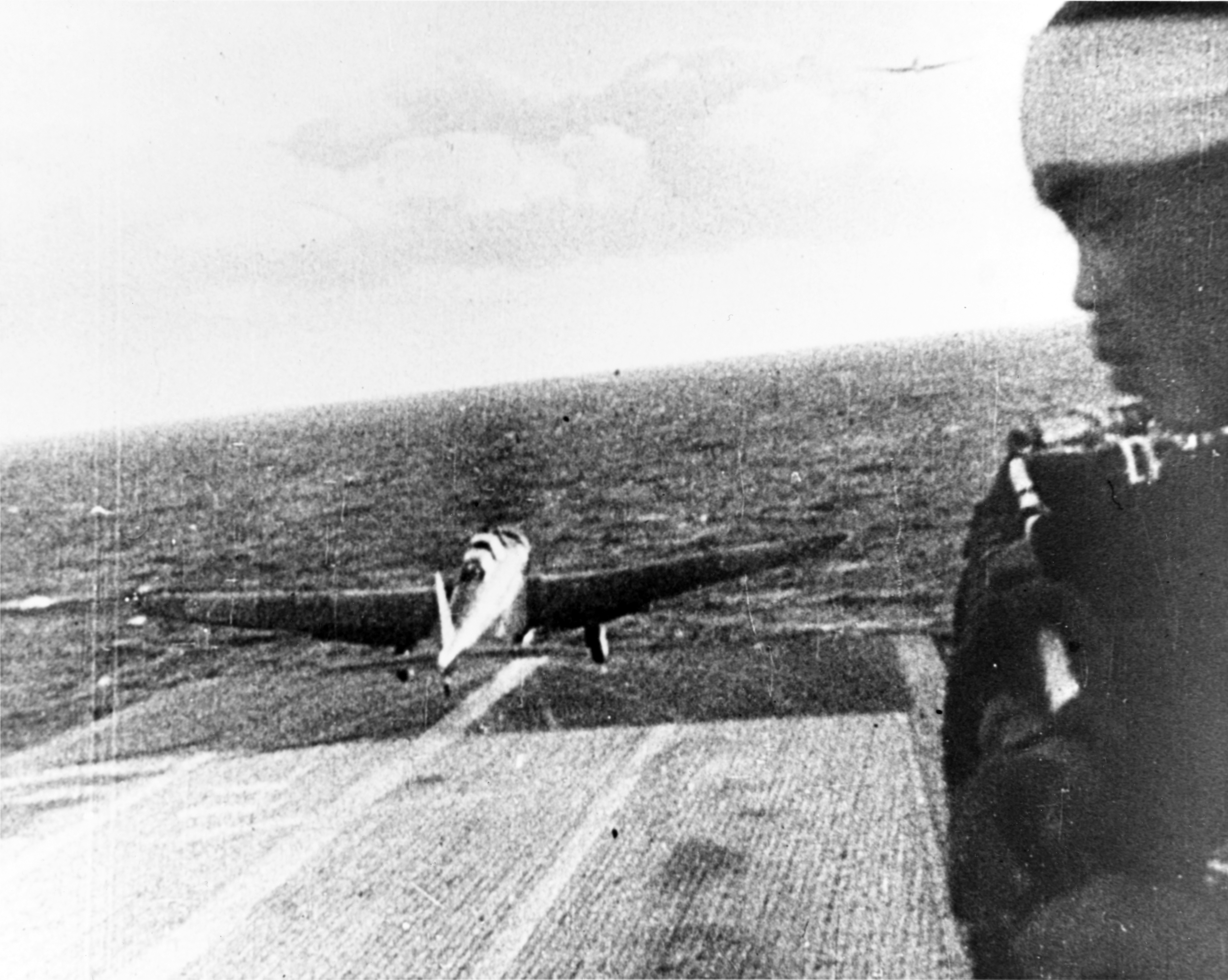 A Japanese carrier attack plane Nakajima B5N2 "Kate" takes off from the aircraft carrier Shōkaku, en route to attack Pearl Harbor, during the morning of 7 December 1941.